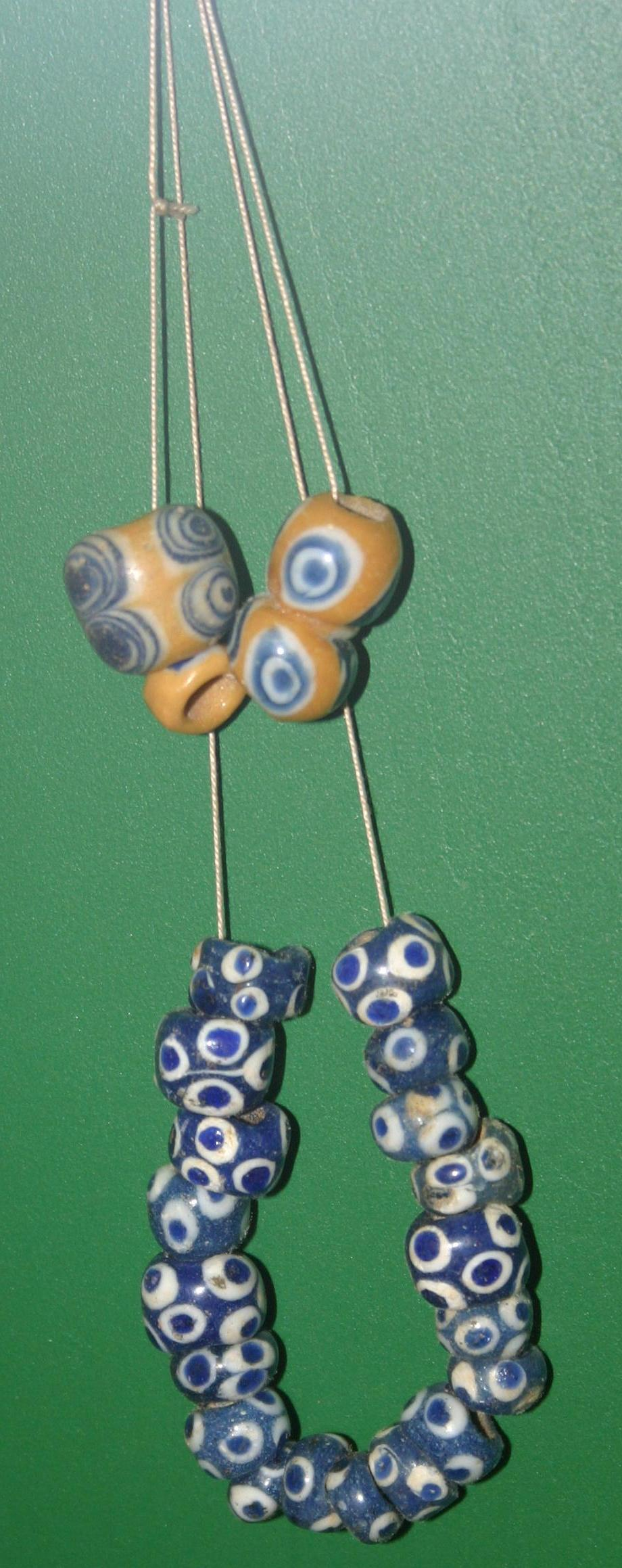 With thanks to the Batumi Archaeological museum for allowing photography